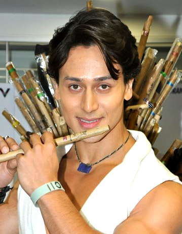 Tiger Shroff at the launch of 'Whistle Baja' song from 'Heropanti'